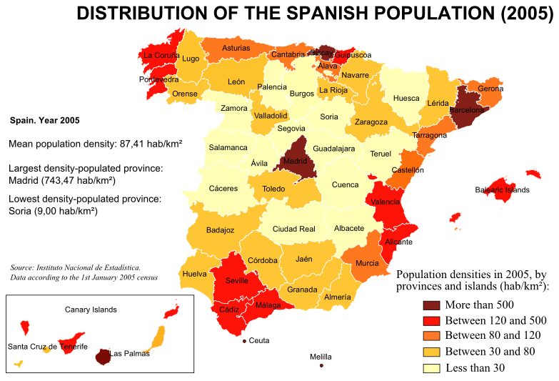 Map of Spain showing the population densities by province, according to the 1st January 2005 Instituto Nacional de Estadística census.